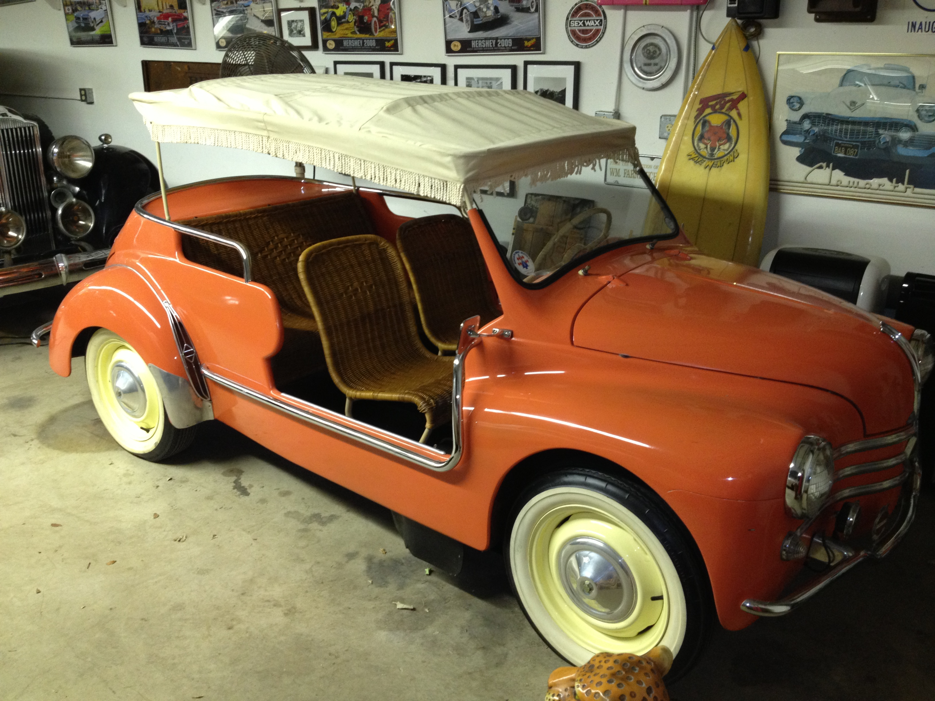 picture of 1961 Renault 4CV Beach Wagon,commonly known as Renault Jolly.